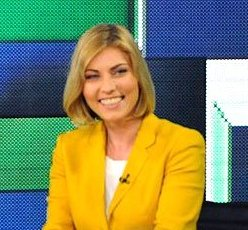 Vladimir Putin visited the new Russia Today broadcasting centre and met with the channel's leadership and correspondents